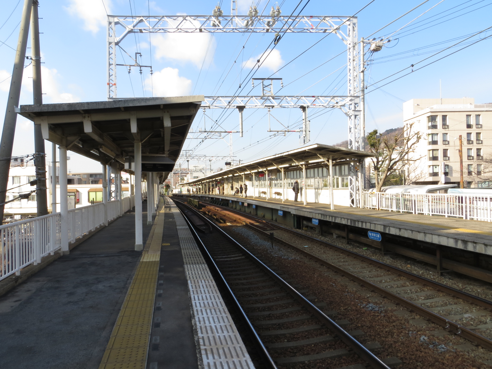 Platfrom from Ashiya-gawa Station (HK10).